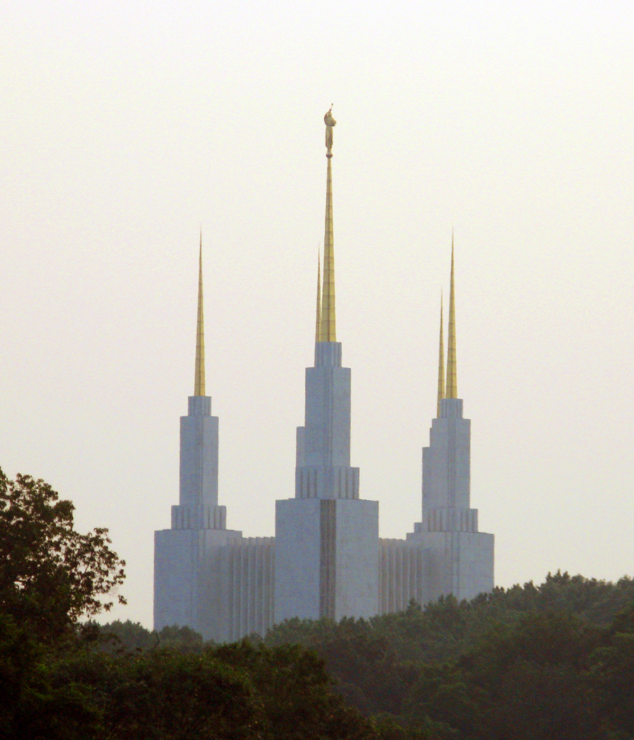 The Washington D.C. Temple of The Church of Jesus Christ of Latter-day Saints, as viewed from I495 in Forest Glen.